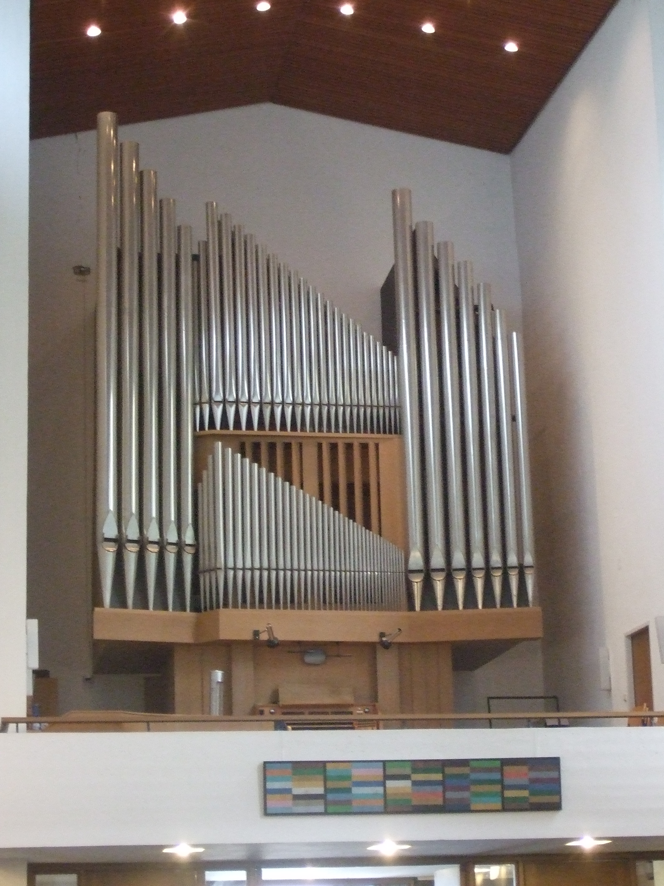 Organ of the Adventskirche, Kassel